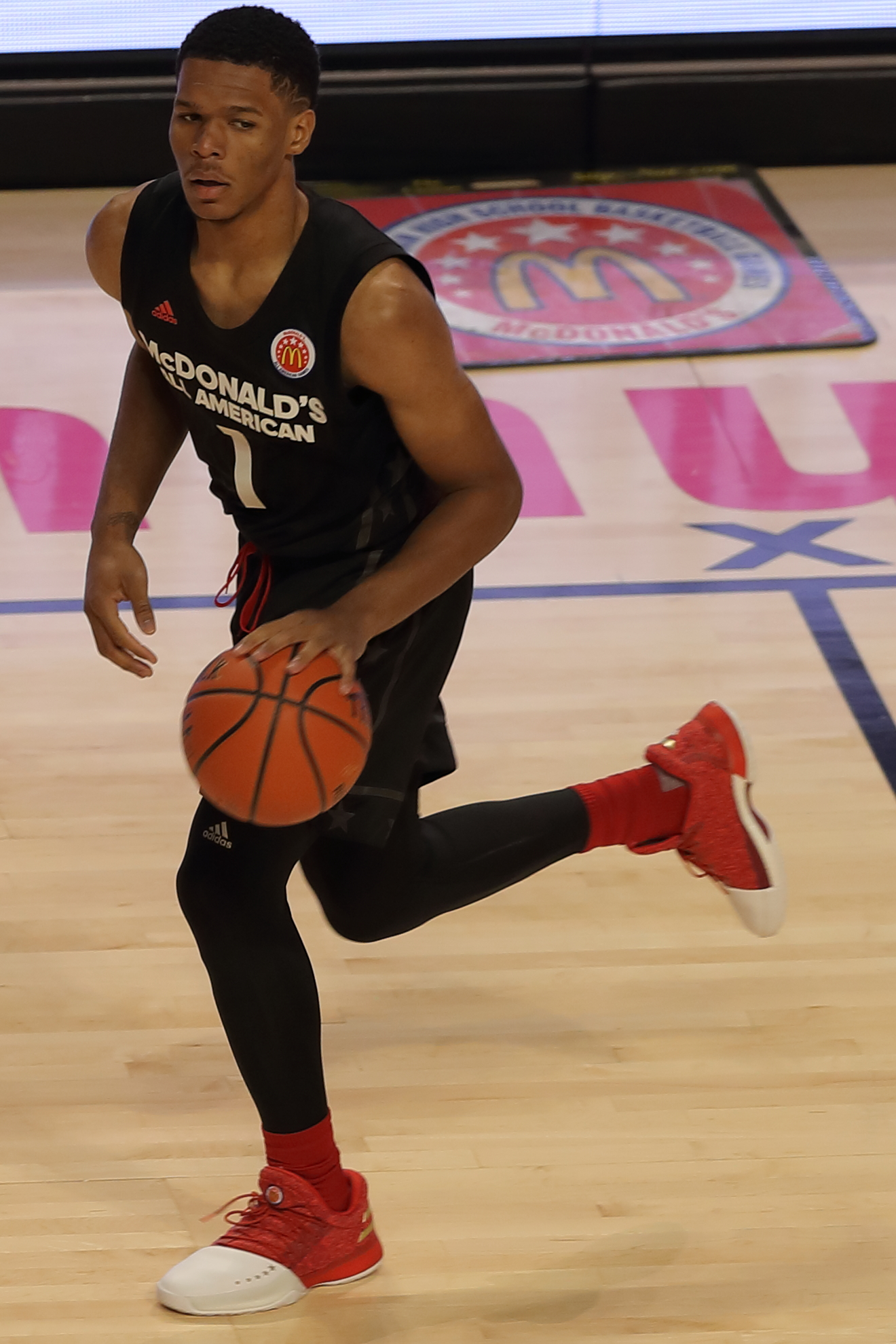 Trevon Duval at the w:2017 McDonald's All-American Boys Game